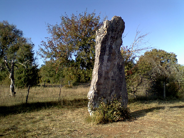 The Belinac menhir in the Quercy - Lot - France